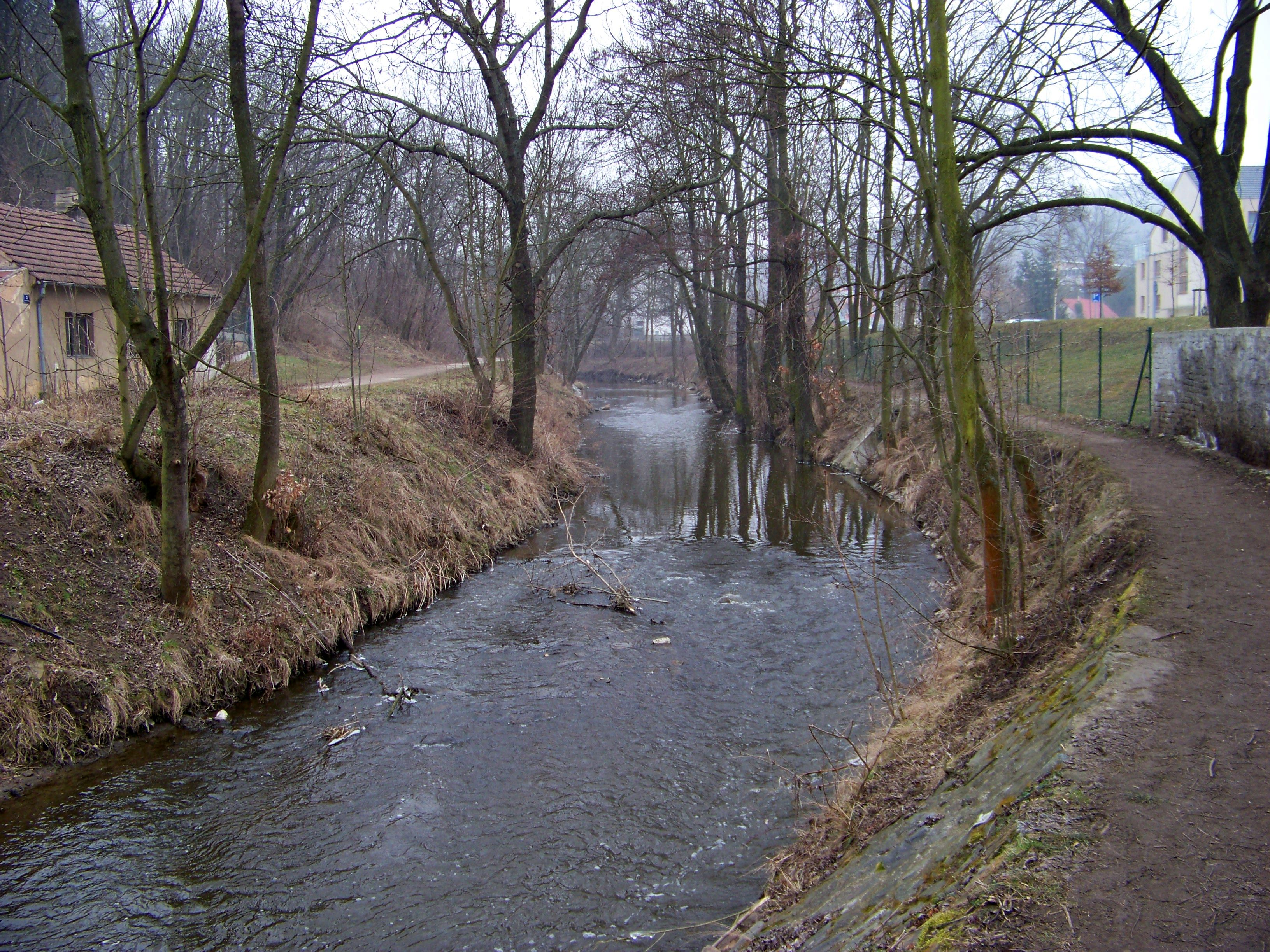 Prague-Hrdlořezy, the Czech Republic. Rokytka creek, Pod Smetankou street. - OpenStreetMap(Info)